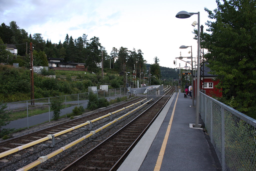 Besserud Metrostation seen from rail 2, faced towards Midstuen Metrostation.